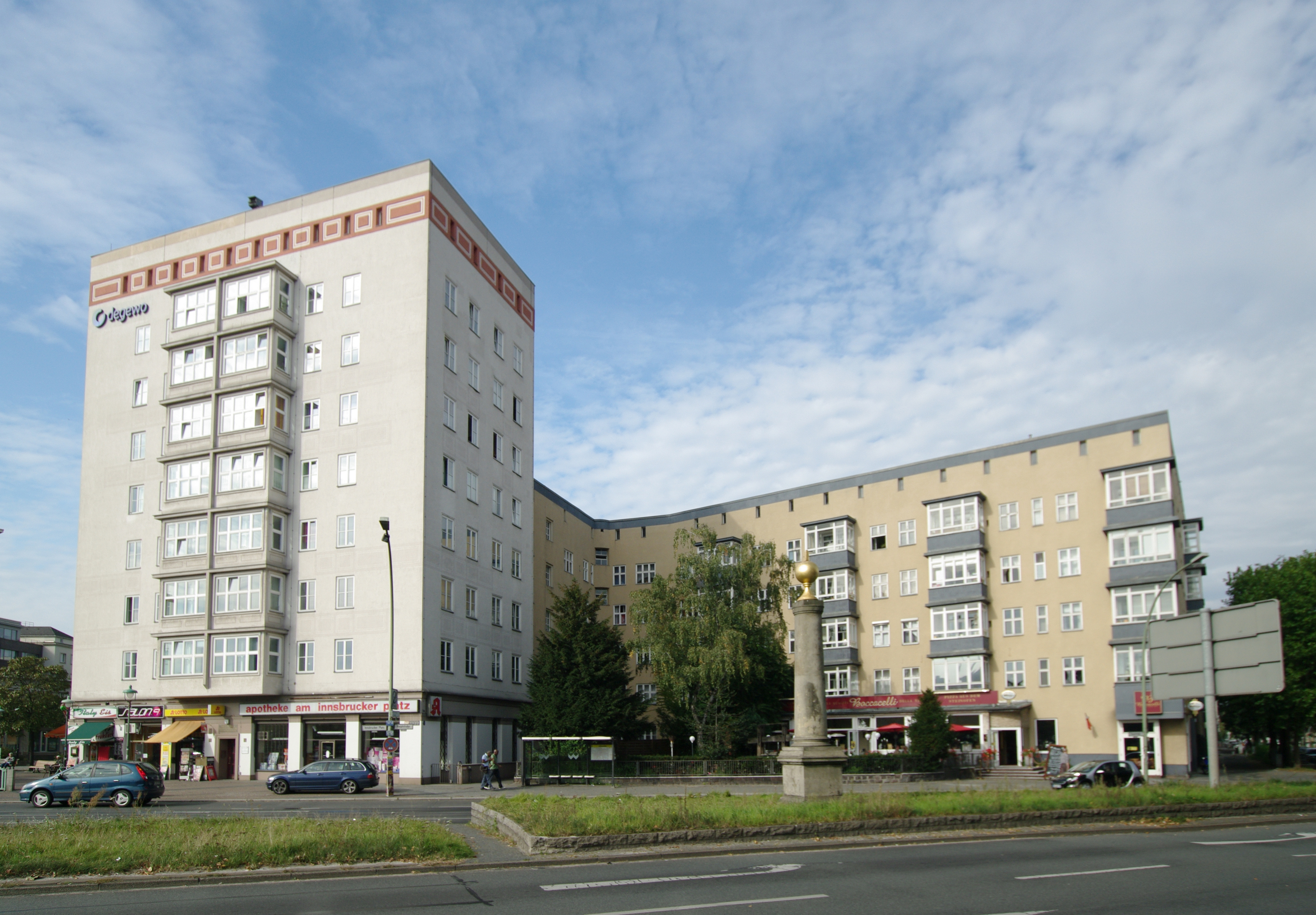 Building ensemble Innsbrucker Platz 4/Martin Luther Straße 126, 1922-28 by Mebes und Emmerich; milestone "1 mile to Berlin", Berlin, Germany